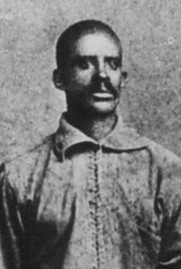 Bud Fowler of the Keokuk professional baseball team